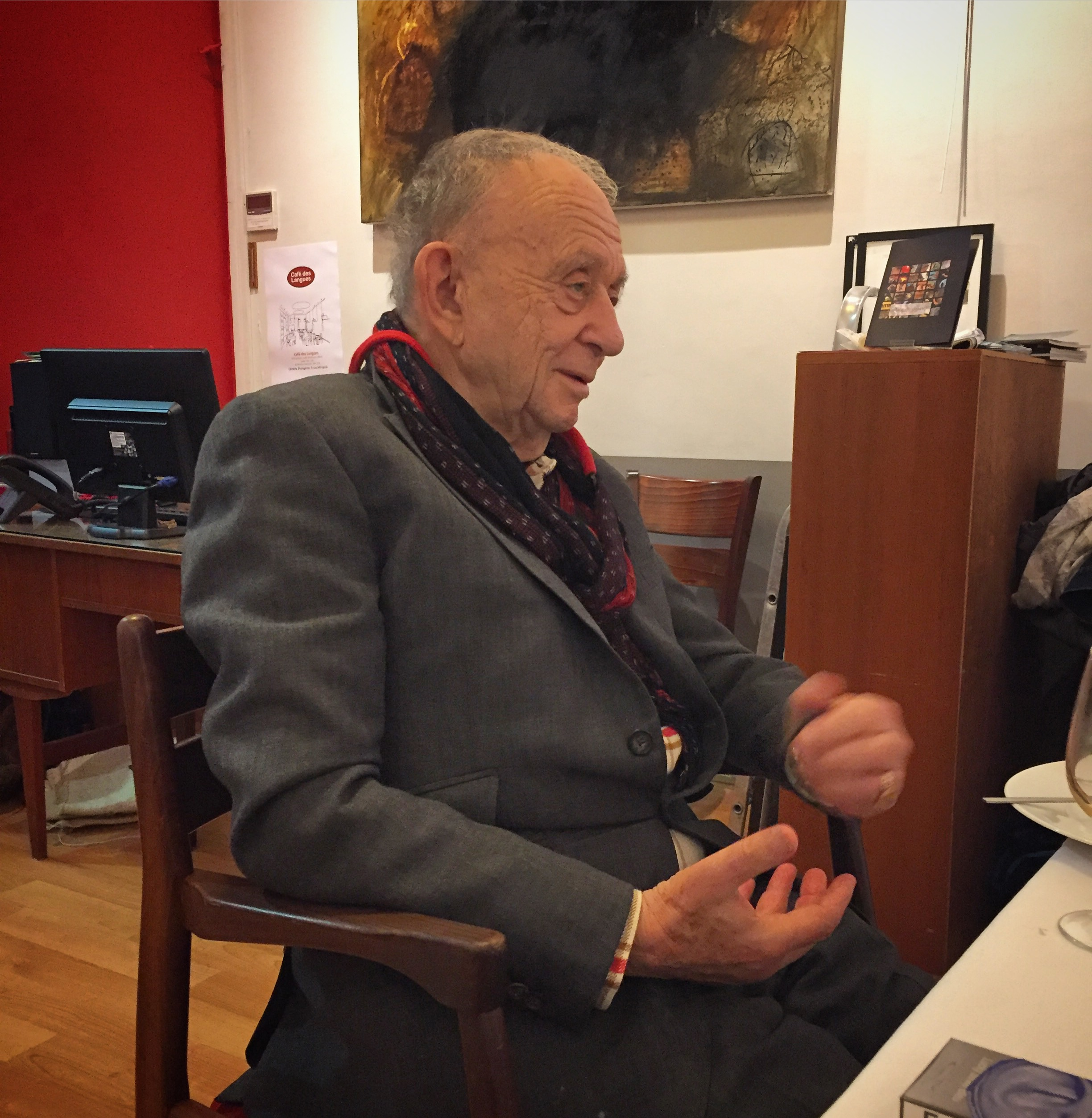 Frederick Wiseman, Toulouse, 3 November 2017